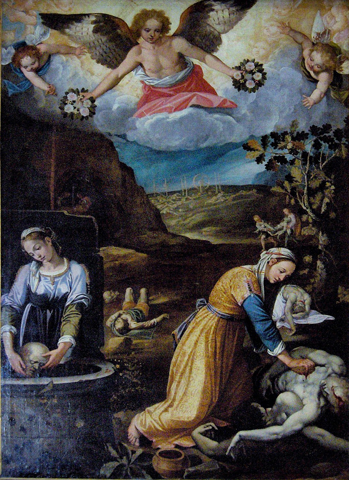 "St. Praxedes and Pudenziana collecting the Blood of the Martyrs" by Antonio Tanari (1621); painting in the church of Santa Pudenziana, Rome, Italy